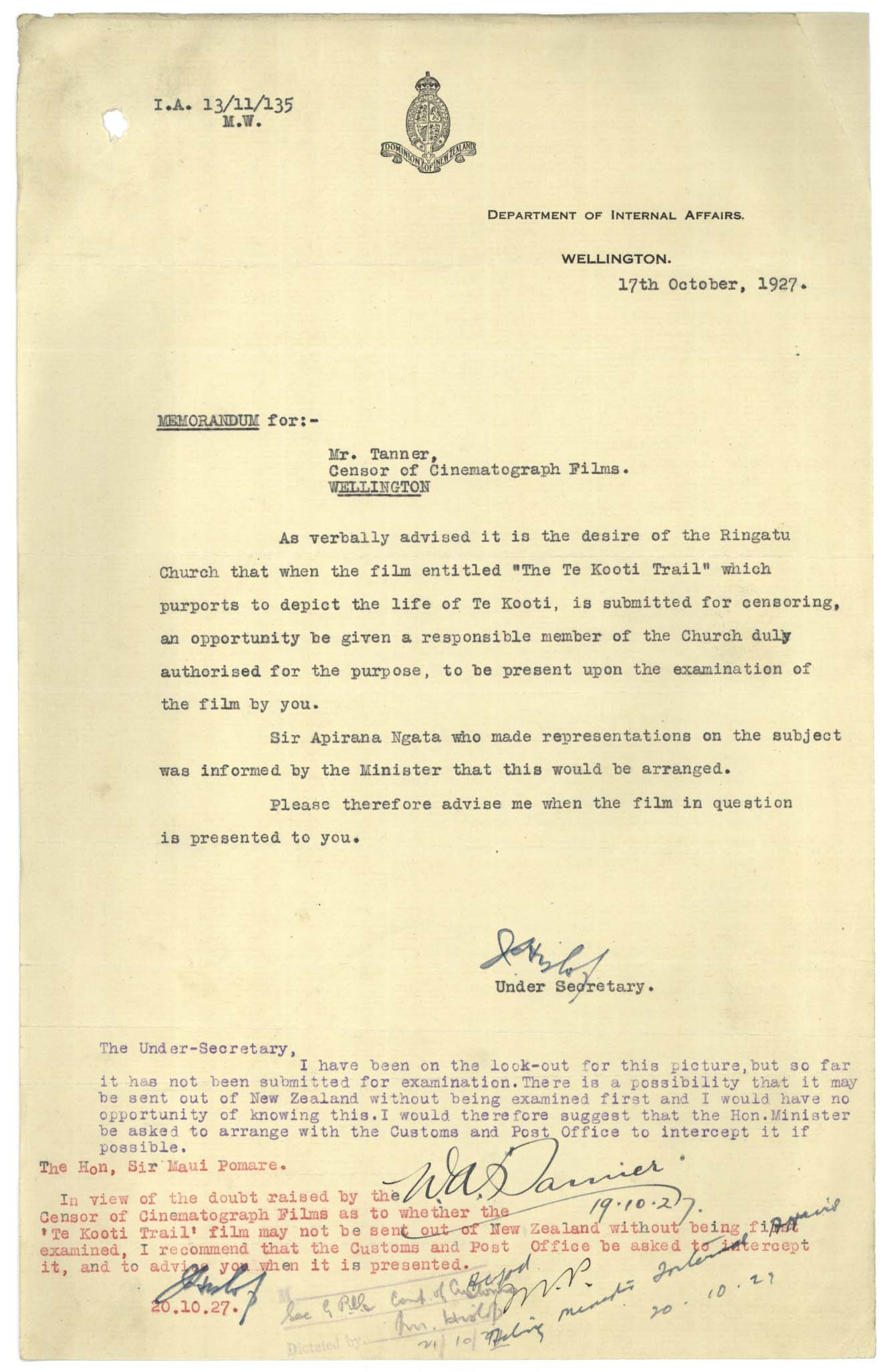 Billed at the time as New Zealand’s greatest film production, 'The Te Kooti Trail' premiered at the Strand Theatre, Auckland on 17 November 1927. The film was based on the military campaign of Te Kooti Arikirangi Te Turuki, and adapted from various historical sources. Its pioneering producer Rudall Hayward used local Māori in his cast, and gave the starring role to elderly Tūhoe chief Te Pairi o te Rangi (who had carried rifles for Te Kooti as a boy). Restored in 2000 by The Film Archive, 'The Te Kooti Trail' was re-screened at Le Giornate del Cinema Muto, Italy in 2001. 'The Te Kooti Trail' became notorious for causing one of New Zealand’s first home-grown censorship controversies. The release of the film was delayed by censor William Tanner (at the request of MP Maui Pomare), so that Māori MPs and elders of the Ringatu Church could ensure its accuracy. "Some have argued that Hayward then used the incident to win publicity for the film," notes NZ On Screen, "but it appears more likely that the fuss was created by Whakatane Films, the company that financed it." As a result, the famous by-line 'Stopped by the N.Z. Film Censor! Because of its Amazing Historic Realism – then released because it proved to be the truth. Filmed as it actually happened!' was added. The record above is the memorandum instructing Tanner to censor the film. Fearing that the 'The Te Kooti Trail' might be sent offshore before he had a chance to view it, Tanner recommended the Customs and Post Office be given powers to intercept the film. However there was no need - Hayward submitted the film to Tanner on 6 November, and the film went ahead after the removal of two subtitles referring to Te Kooti’s "fake miracles." Archives Reference: IA1 Box 1316/ 13/11/135 For updates on our On This Day series and news from Archives New Zealand, follow us on Twitter Material from Archives New Zealand